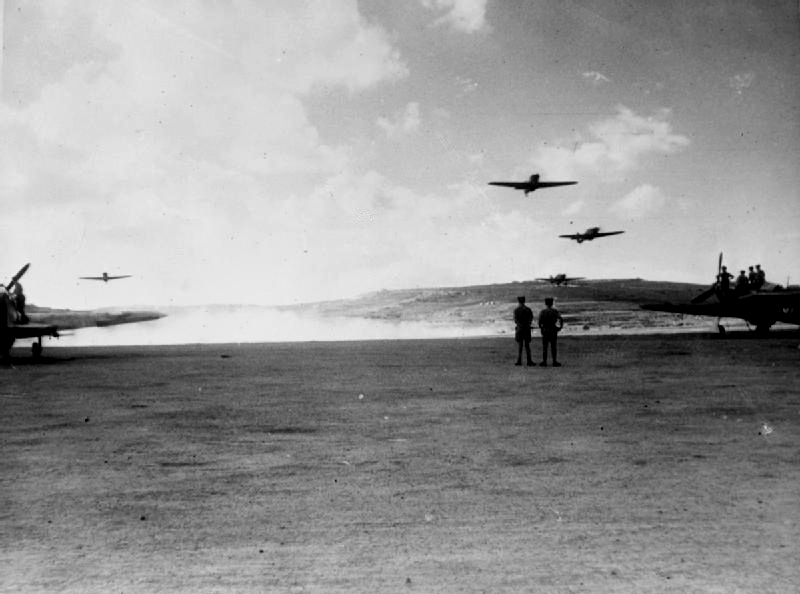 Hawker Hurricanes of No. 261 Squadron RAF take off from Ta Kali, Malta, to intercept incoming enemy aircraft.